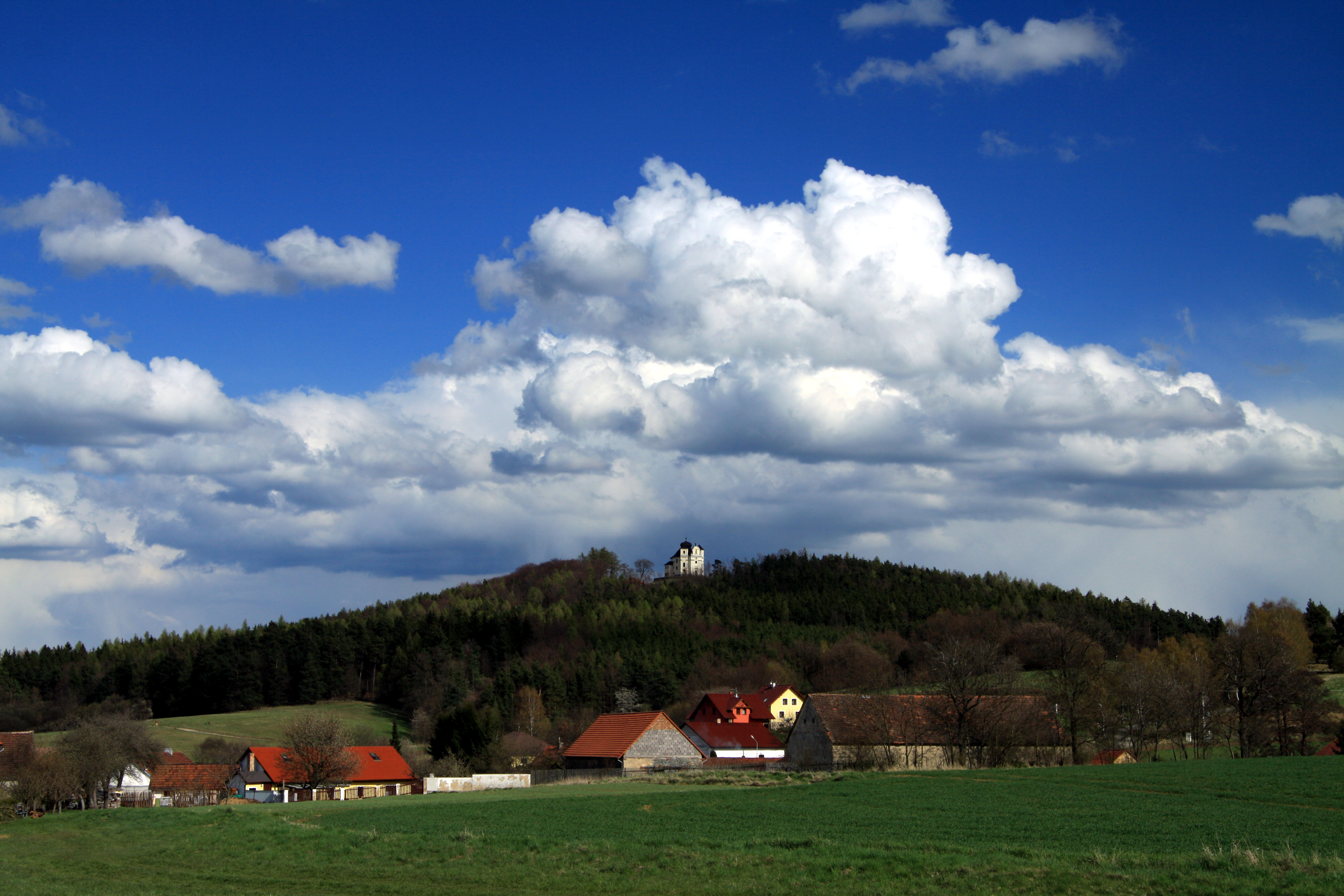 View of Smolotely village and Maková Hill in Příbram District, Czech Republic